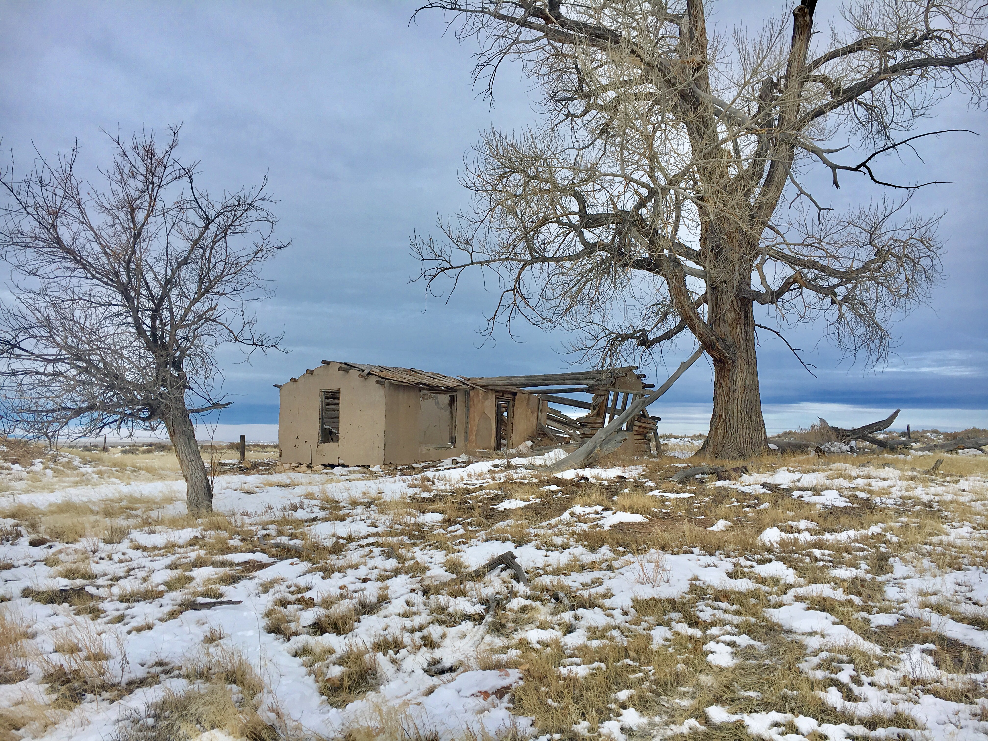 Remains of an old stage coach stop just south of Bowler, MT.